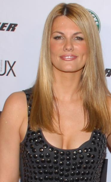 Actress Courtney Hansen